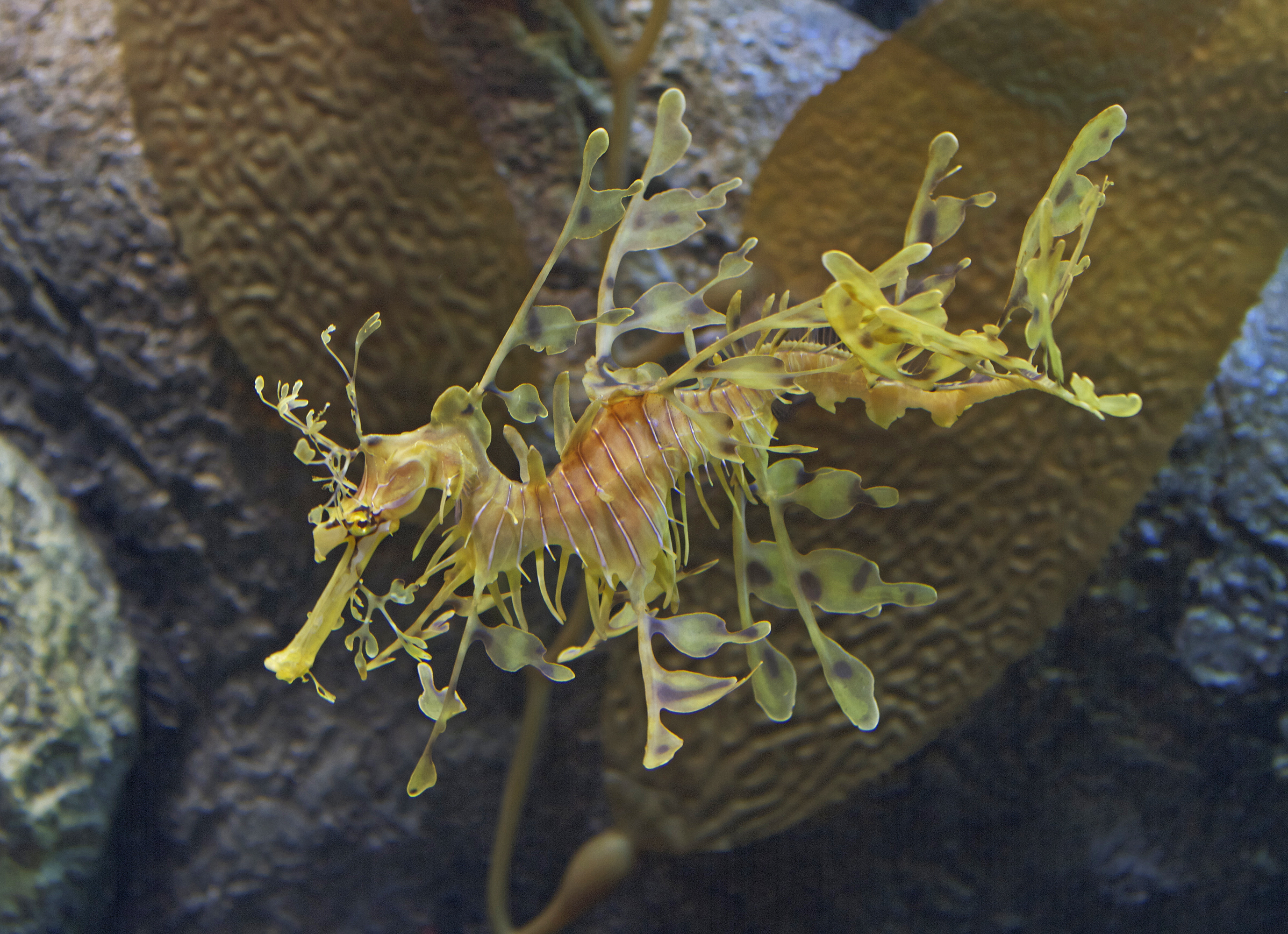 Leafy Seadragon photo taken at the Monterey Bay Aquarium.